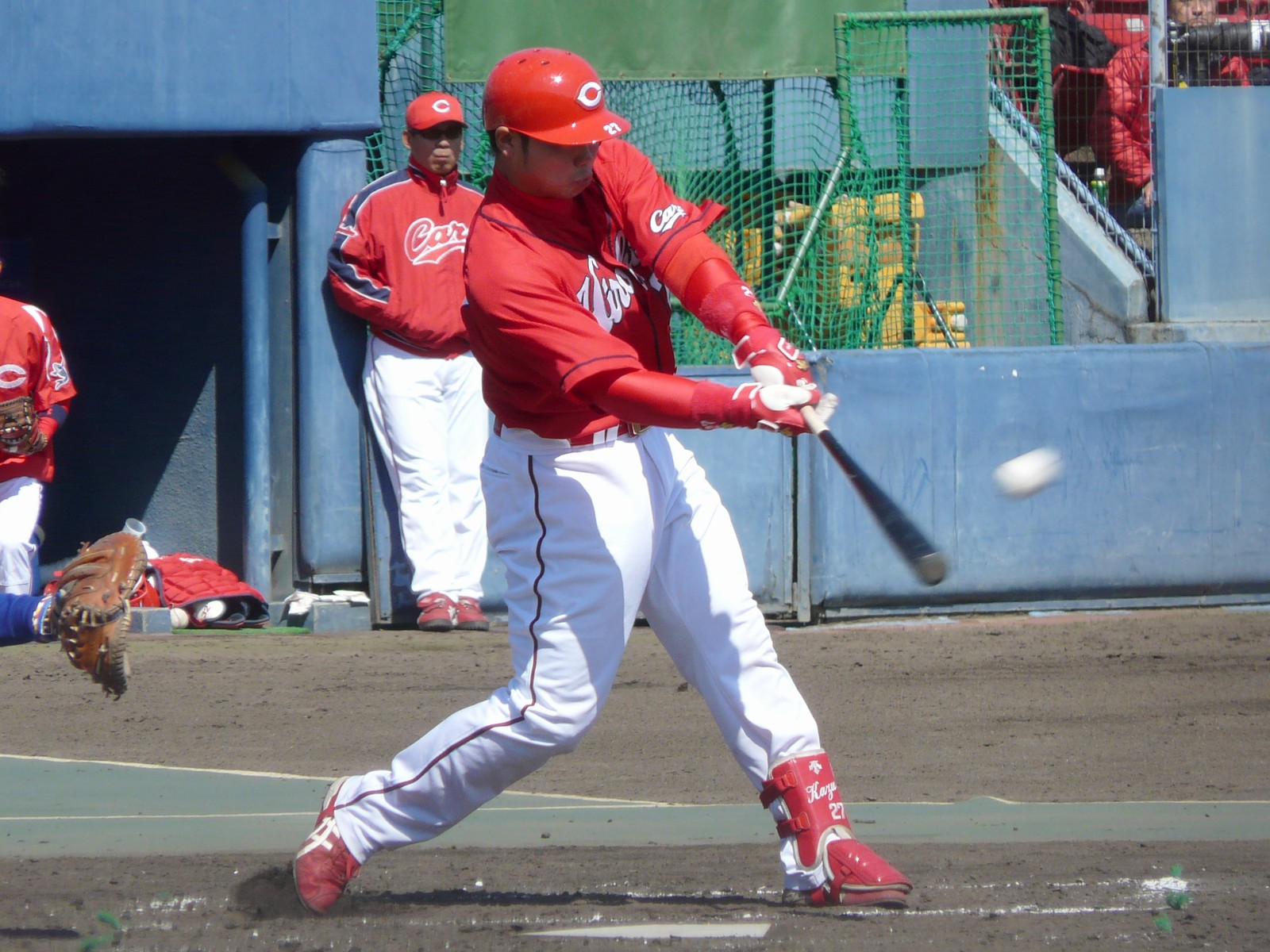 Kazuhiro Uemura, catcher of the Hiroshima Toyo Carp, at Nagoya Baseball Stadium.